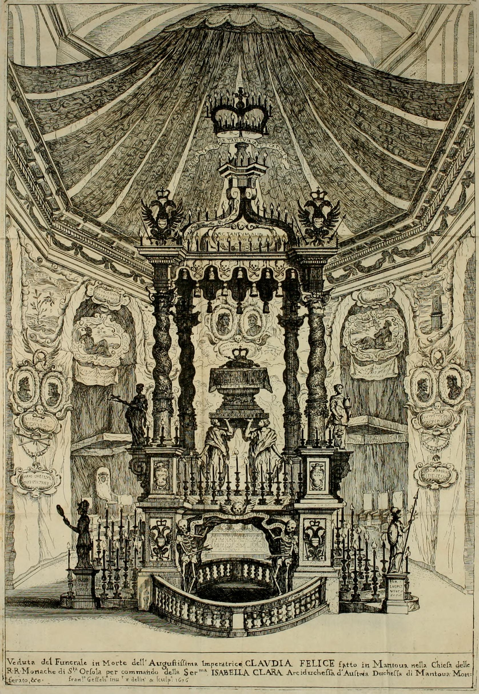 Print made by Frans Geffels extracted from the book by Antonio Gobio and Frans Geffels entitled Le essequie celebratesi nella chiesa delle MM. RR. Madri di S. Orsola di Mantoua : d'ordine della serenissima signora arciduchessa Isabella Clara d' Austria, duchessa di Mantoua, Monferrato, &c., per la morte dell' imperatrice augustissima Claudia Felice lei nipote published in Mantua in 1676 by Francesco Osanna, printer to the Duke. The book describes the funeral rites performed in the church of the Mothers of St. Ursula of Mantua upon the death in Vienna of Empress Claudia Felicitas of Austria. Archduchess Isabella Clara of Austria, the Duchess of Mantua and aunt of Claudia Felicitas, had ordered the organisation of the funeral rites.